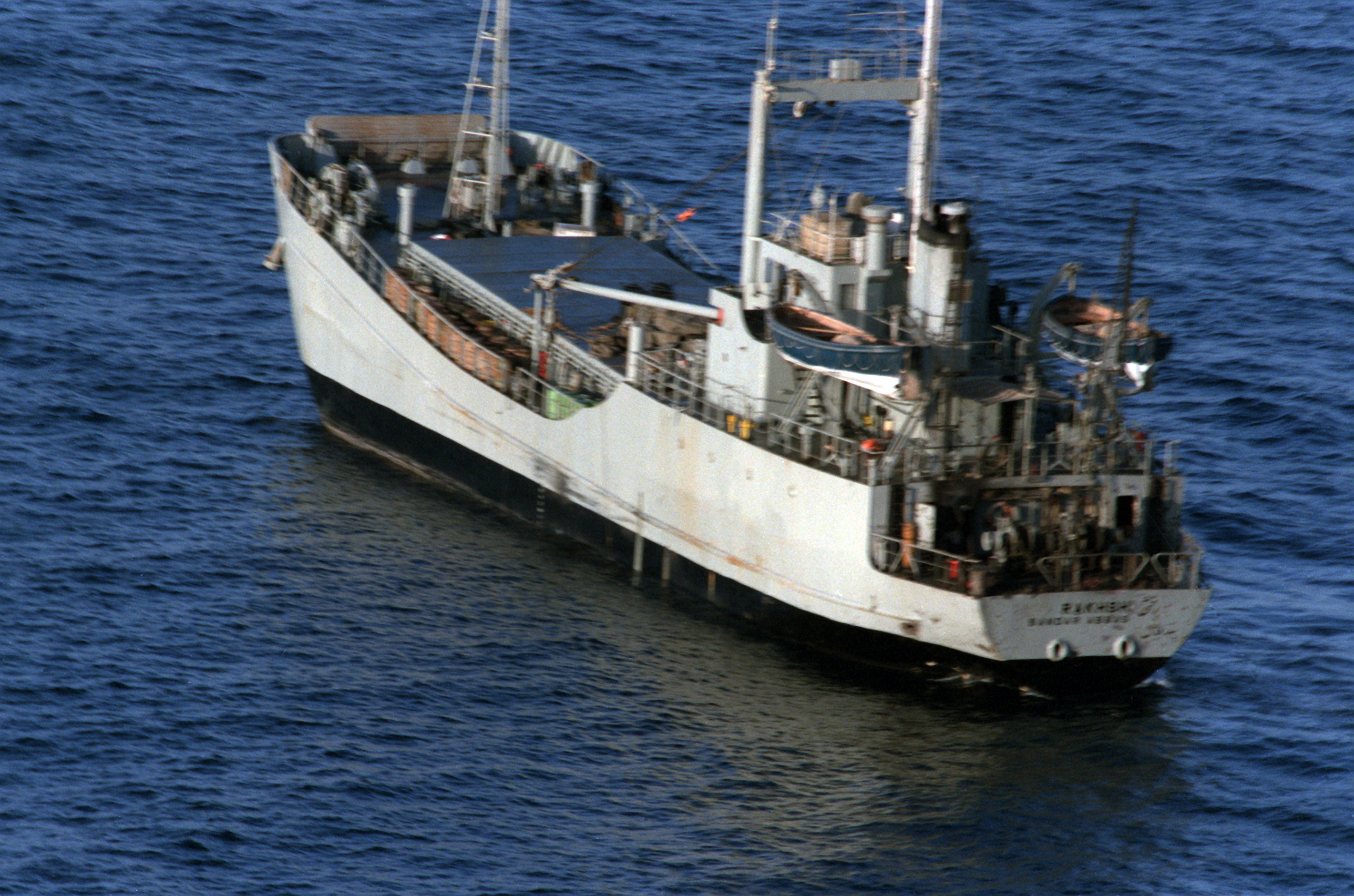 A port quarter view of the captured Iranian mine-laying ship IRAN AJR. (Substandard Image) Location: PERSIAN GULF